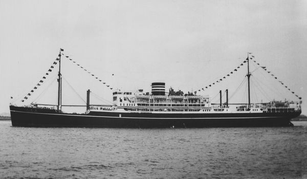 Picture of the NYK Line ship Yasukuni Maru, at maiden voyage on the River Thames